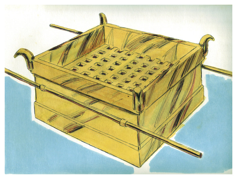 Biblical illustration of Book of Exodus Chapter 28